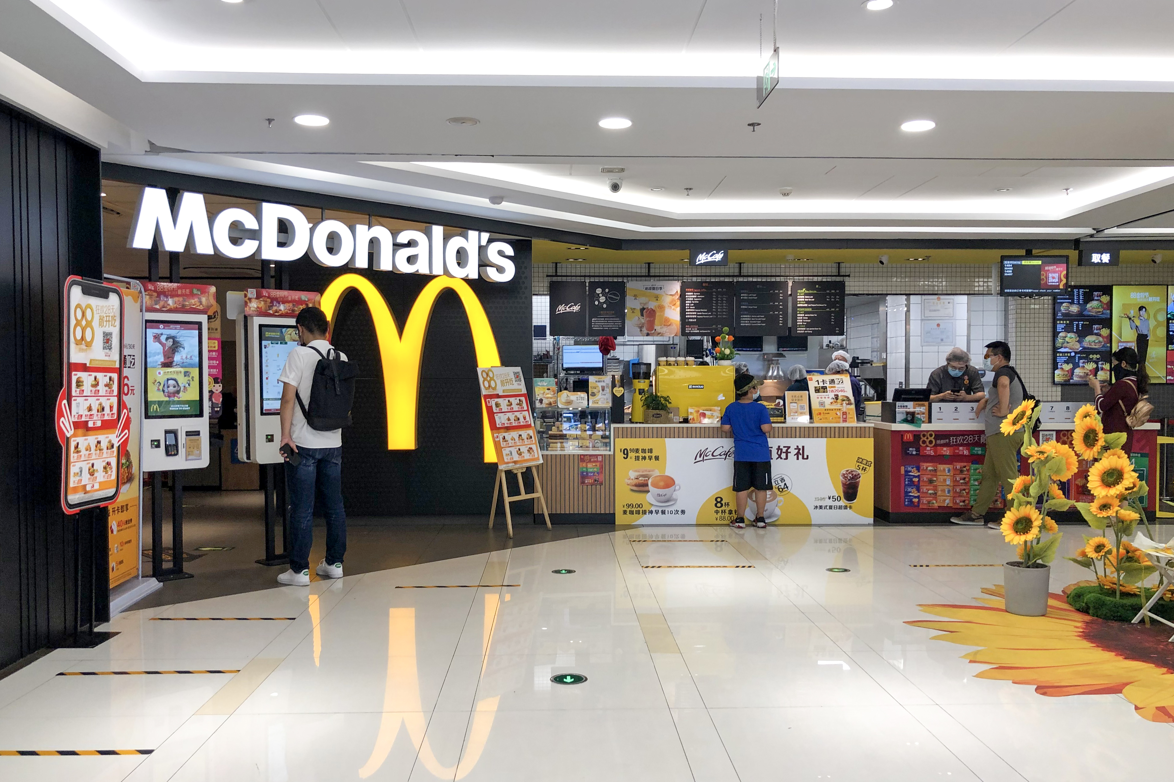 It's the second McDonald's in Beijing.